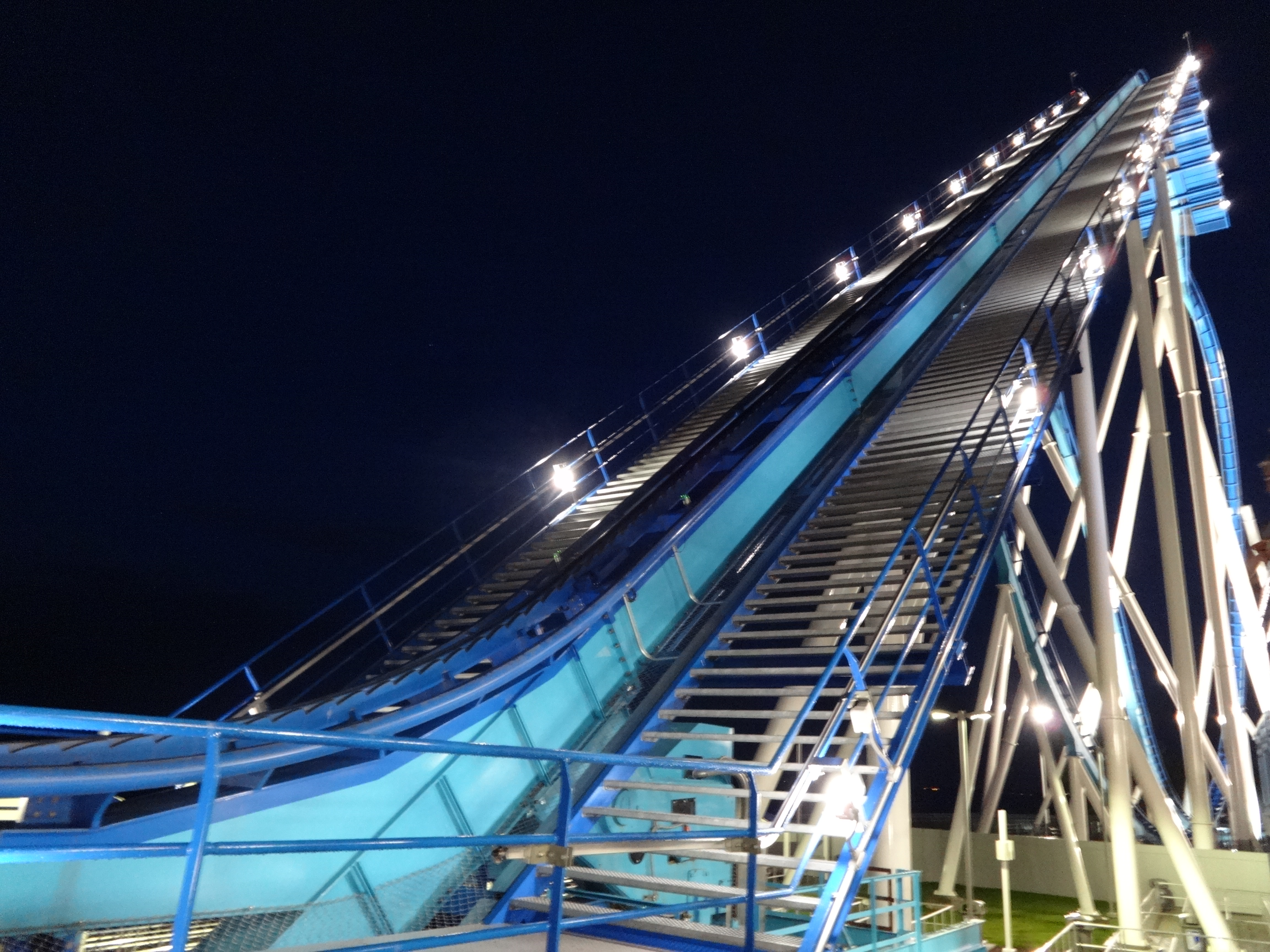 Gate Keeper in its Inaugural 2013 Season, Cedar Point